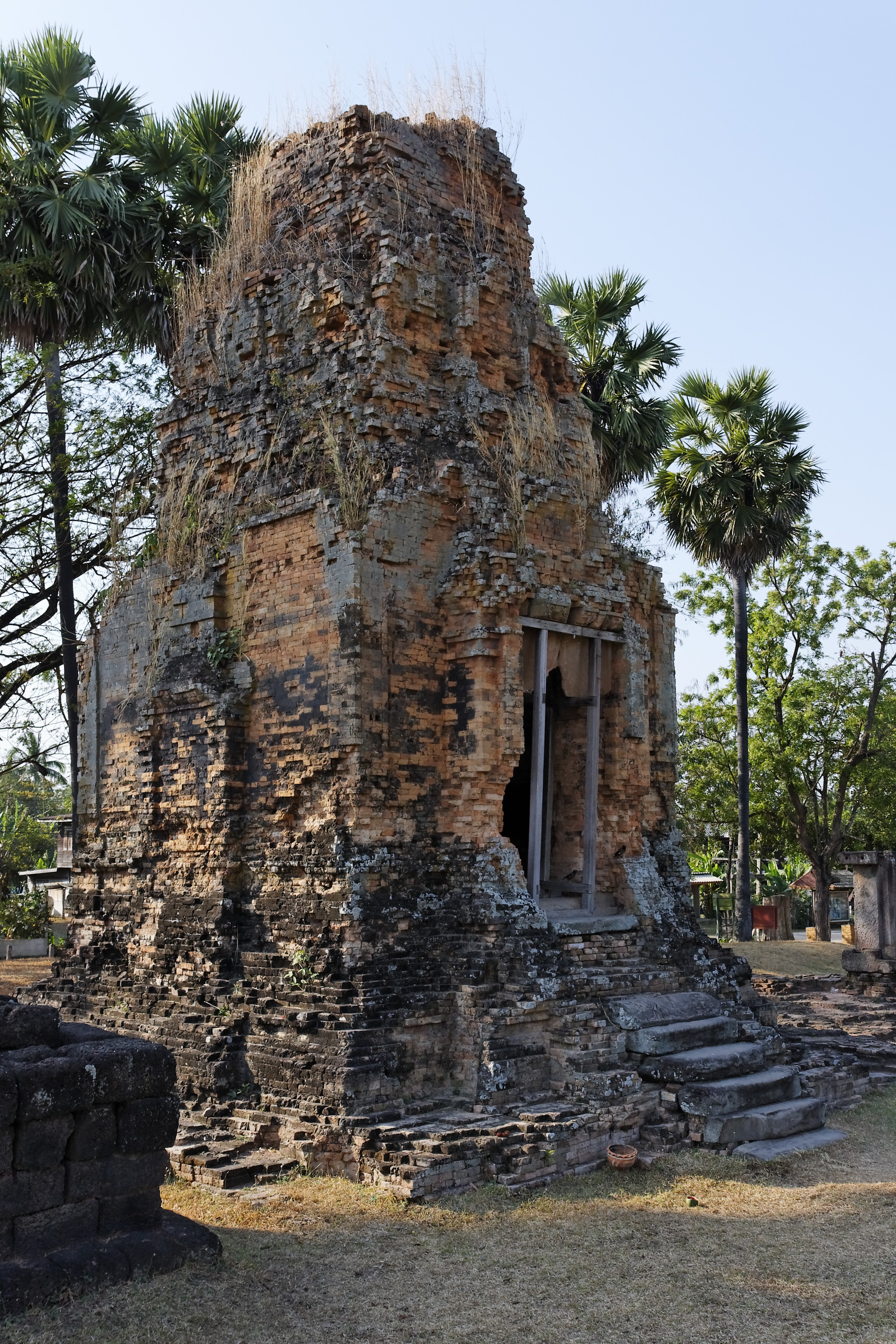 Prasat Phum Pon, Thailand